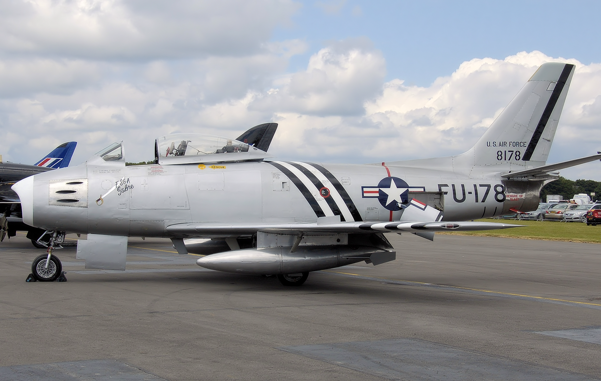 ex-USAF North American F-86A Sabre (code FU-178/8178) at Kemble Air Day 2008, Kemble Airport, Gloucestershire, England. Assembled in Los Angeles in 1948, delivered to the USAF in 1949. Retired from military service 1958 and sent to a Fresno scrap yard. Rescued in 1958 and flew again in 1974. Now resident in England and on the UK civil register.